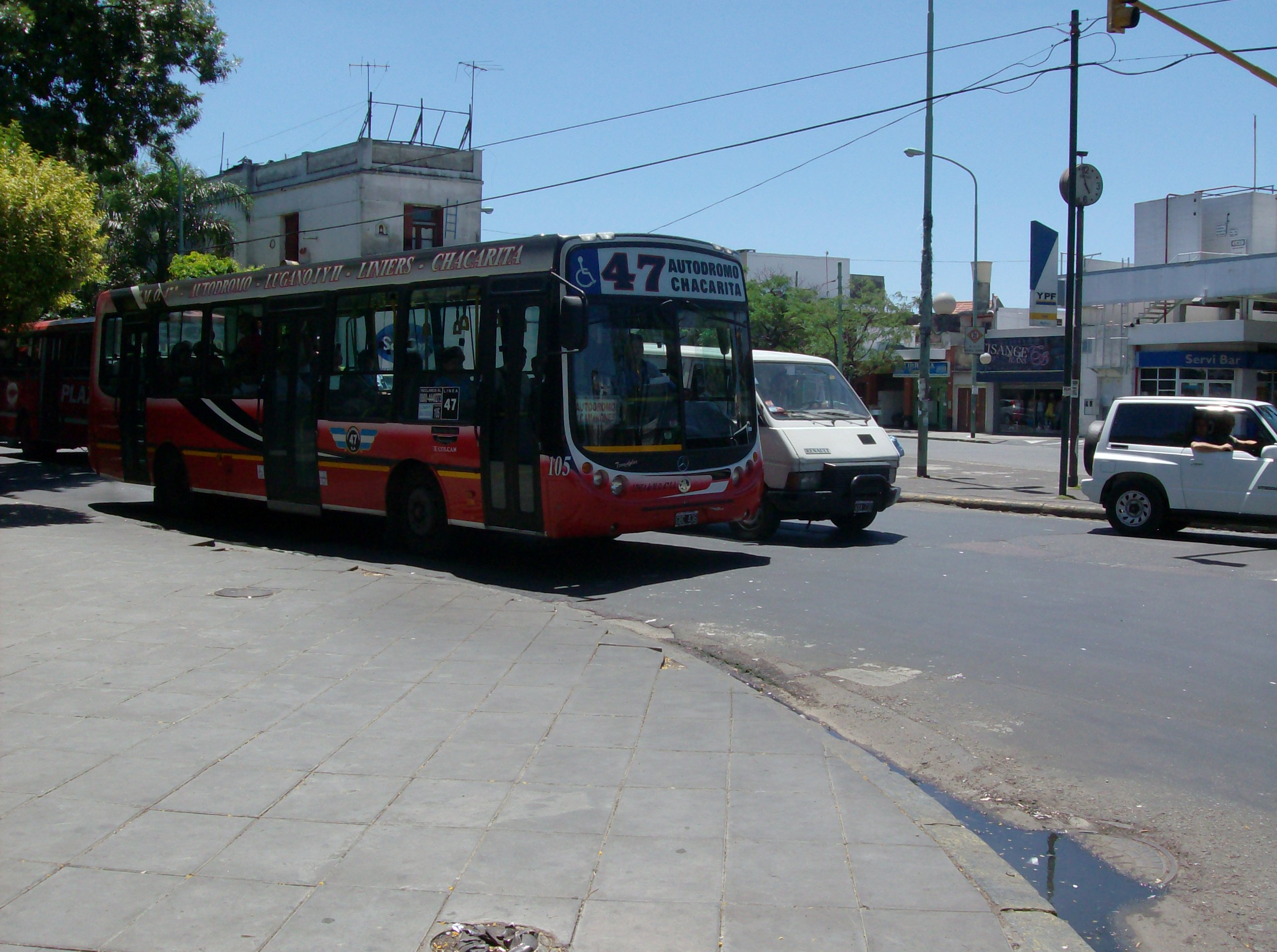 Colectivo 47 picture at Avenida Corrientes and Avenida F. Lacroze (Chacarita), Buenos Aires City (Capital Federal), Argentina. Metalpar Tronador bus (#105) with Mercedes-Benz chassis.